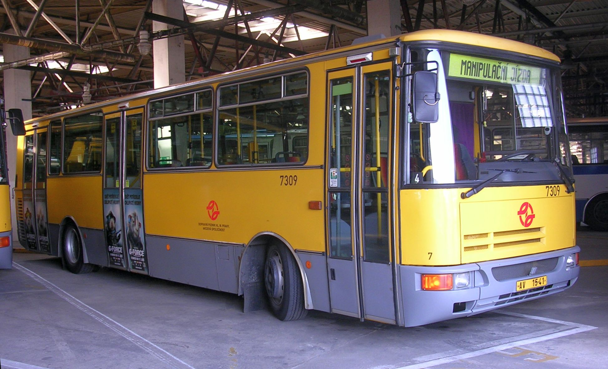 Řepy, Prague, the Czech Republic. Open Doors Day in Řepy bus depot. A Karosa bus. - Google Maps - Google Earth